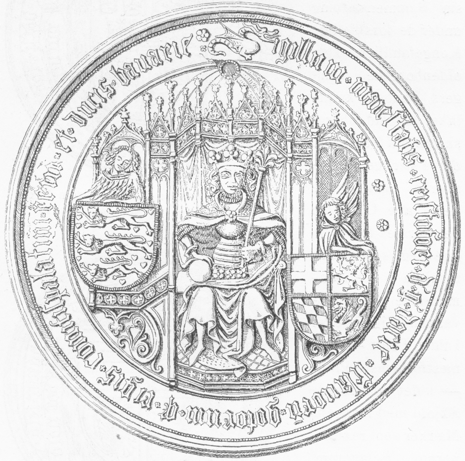 Seal of King Christopher "of Bavaria", king of Denmark, Norway and Sweden.